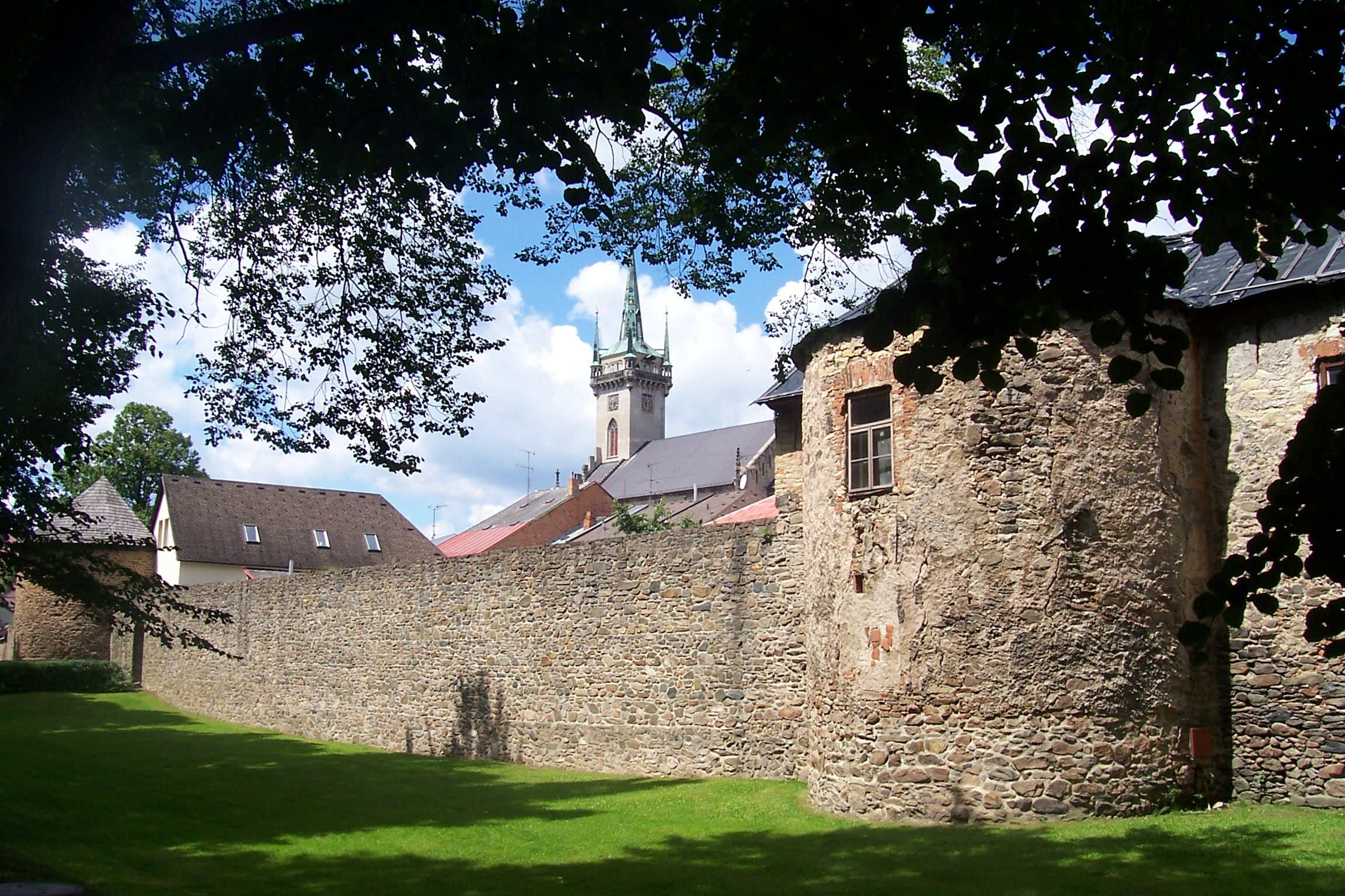 Polička in Svitavy District, Czech Republic. Town wall and the tower of the the St.-Jacob-church.